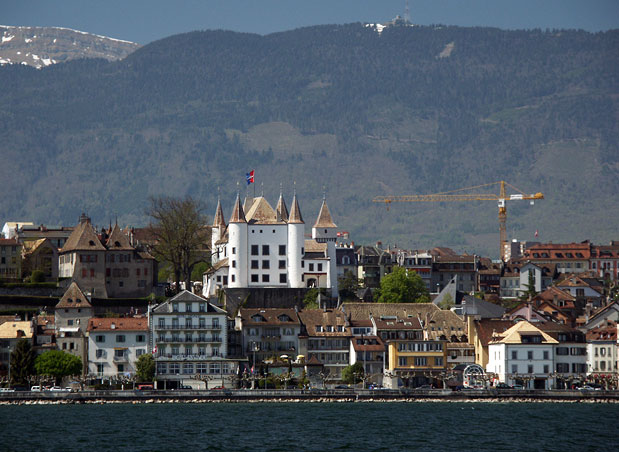 Picture of Nyon taken from the lake.